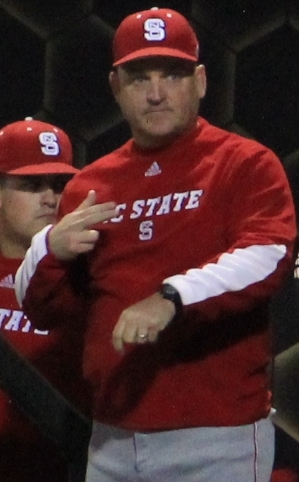 NCSU baseball coach Elliott Avent, 2013